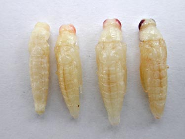 Dorsal view of Emerald Ash Borer pupae.